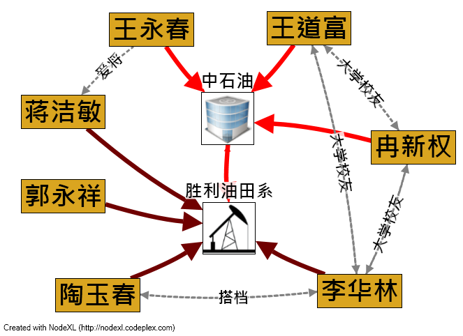 中文（中国大陆）: 石油帮落马官员关系图，根據闽南网，海峡都市报电子版中報導传蒋洁敏腐败金额惊人 中石油腐败案或继续发酵所製的圖關係內容，所再製的圖。使用了Commons 中的圖檔File:Company_building_icon.png及File:Oil_well_icon.png。